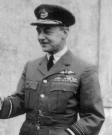 Photograph of Air Marshal Sir Thomas Pike. The caption from the source (see below) states that the photograph was taken in October 1956.